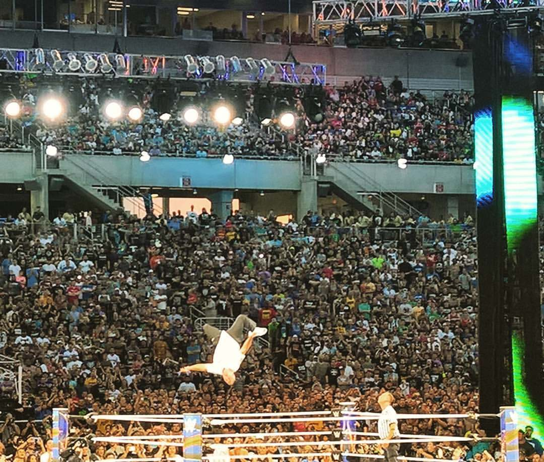 ShaneMcMahon shows off his high flying skills as the crowds watches in awe - Another amazing match at #WrestleMania #WrestleMania33 #WWE #AJStyles #Orlando #Florida